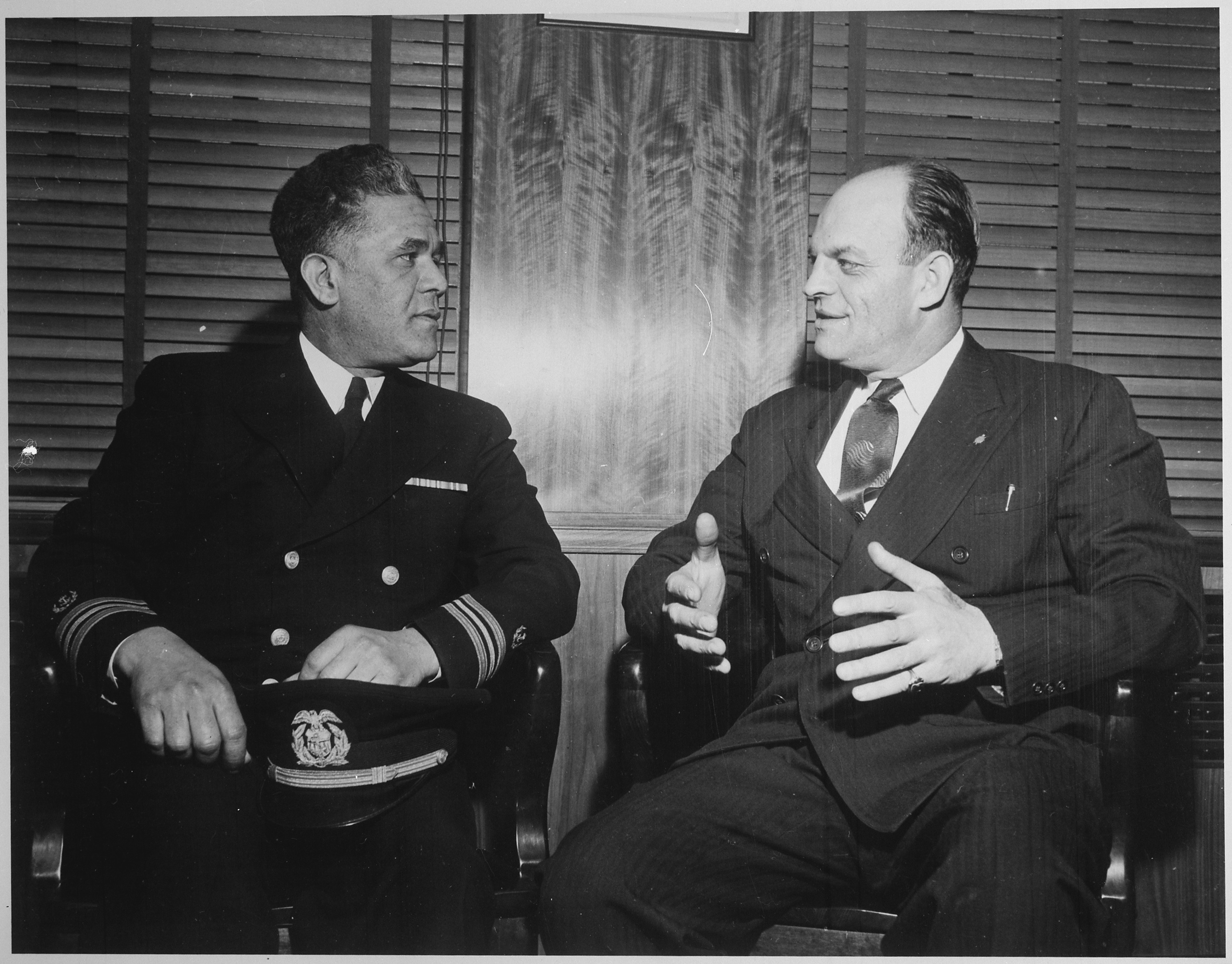 Scope and content: The SS Bert Williams is named for an African-American comedian.